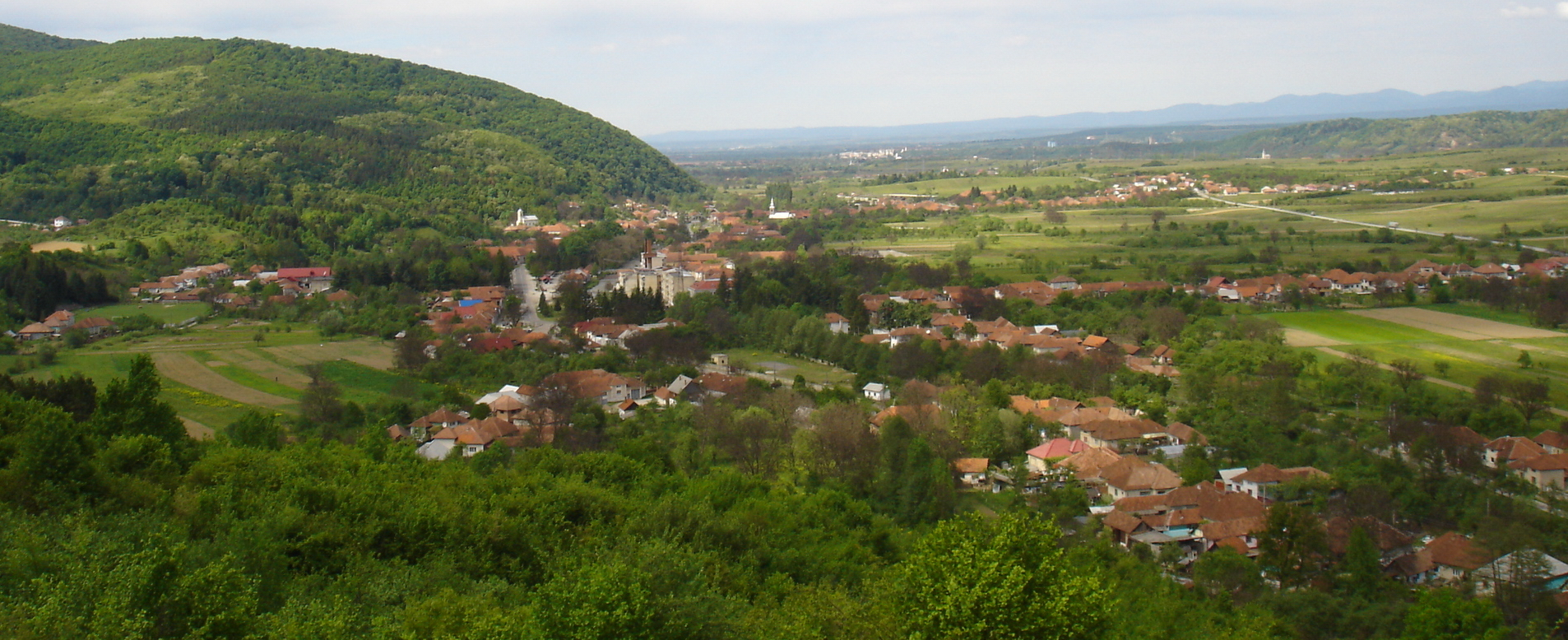 Vaşcău, Bihor County, Romania